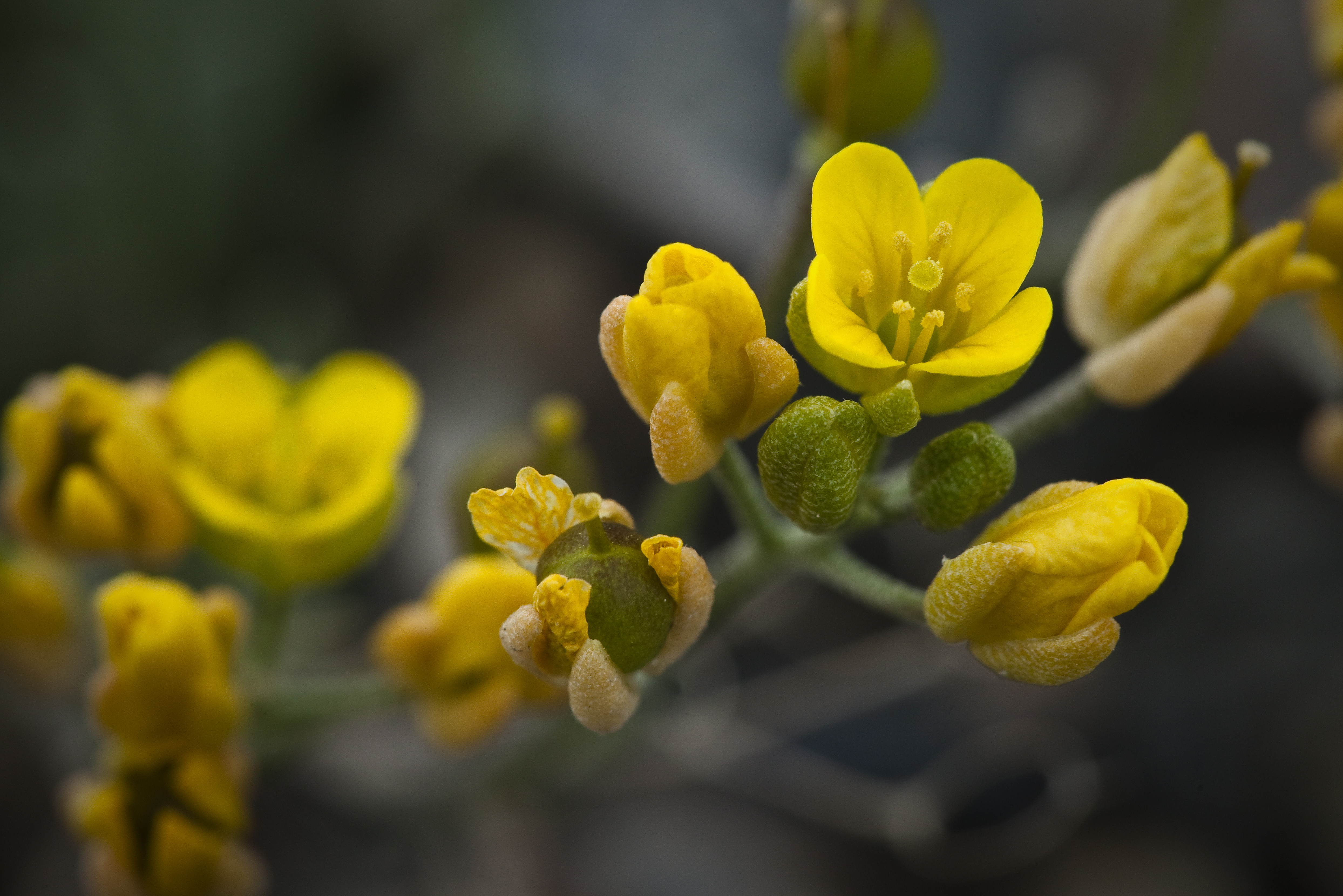 Draba stenoloba by Jacob W. Frank